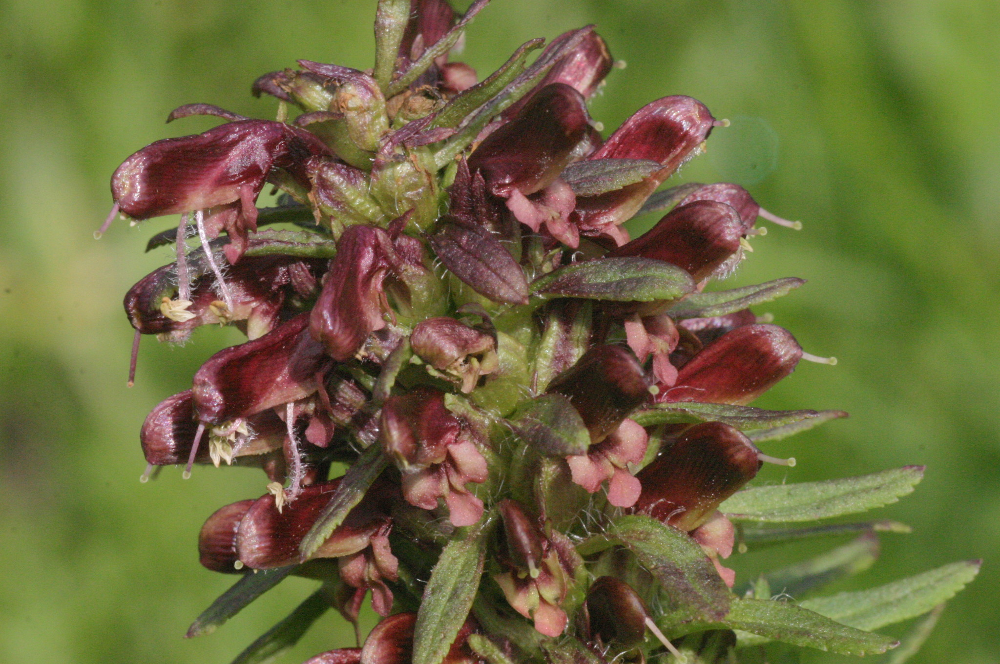 Pedicularis recutita